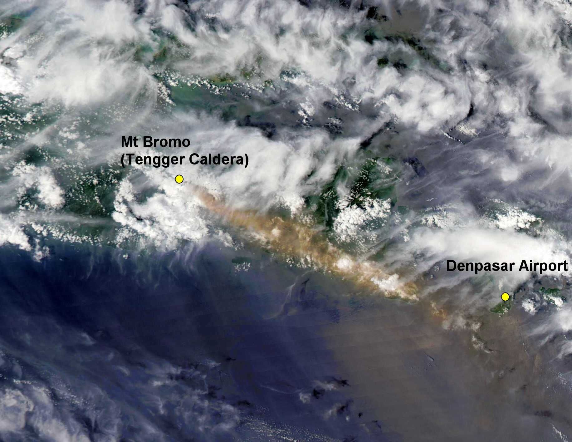 NASA MODIS satellite image showing Bromo ash drifting over Denpasar on 27 January 2011, sourced through the Australian Bureau of Meteorology